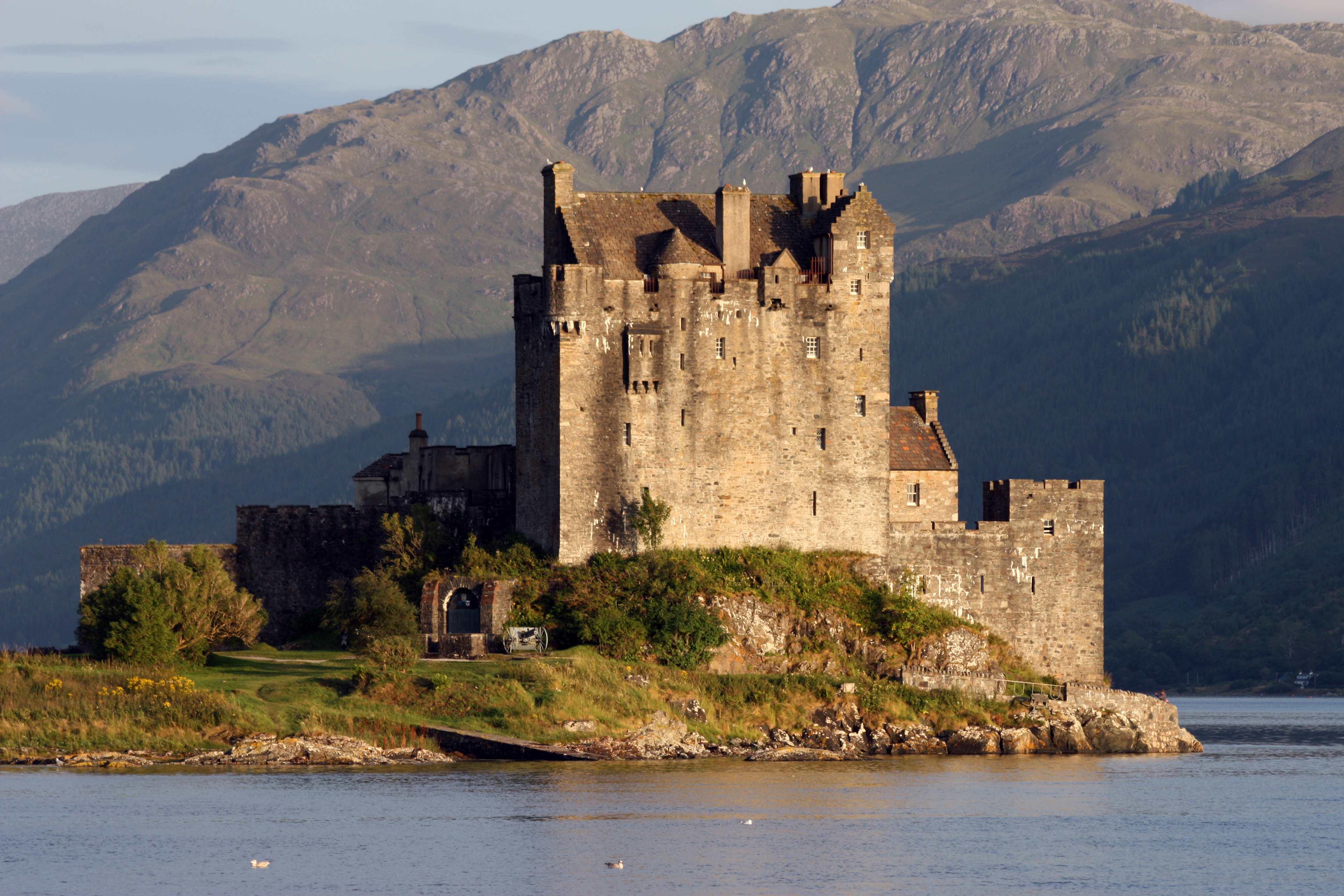 Eilean Donan castle, in the Scottish Highlands.